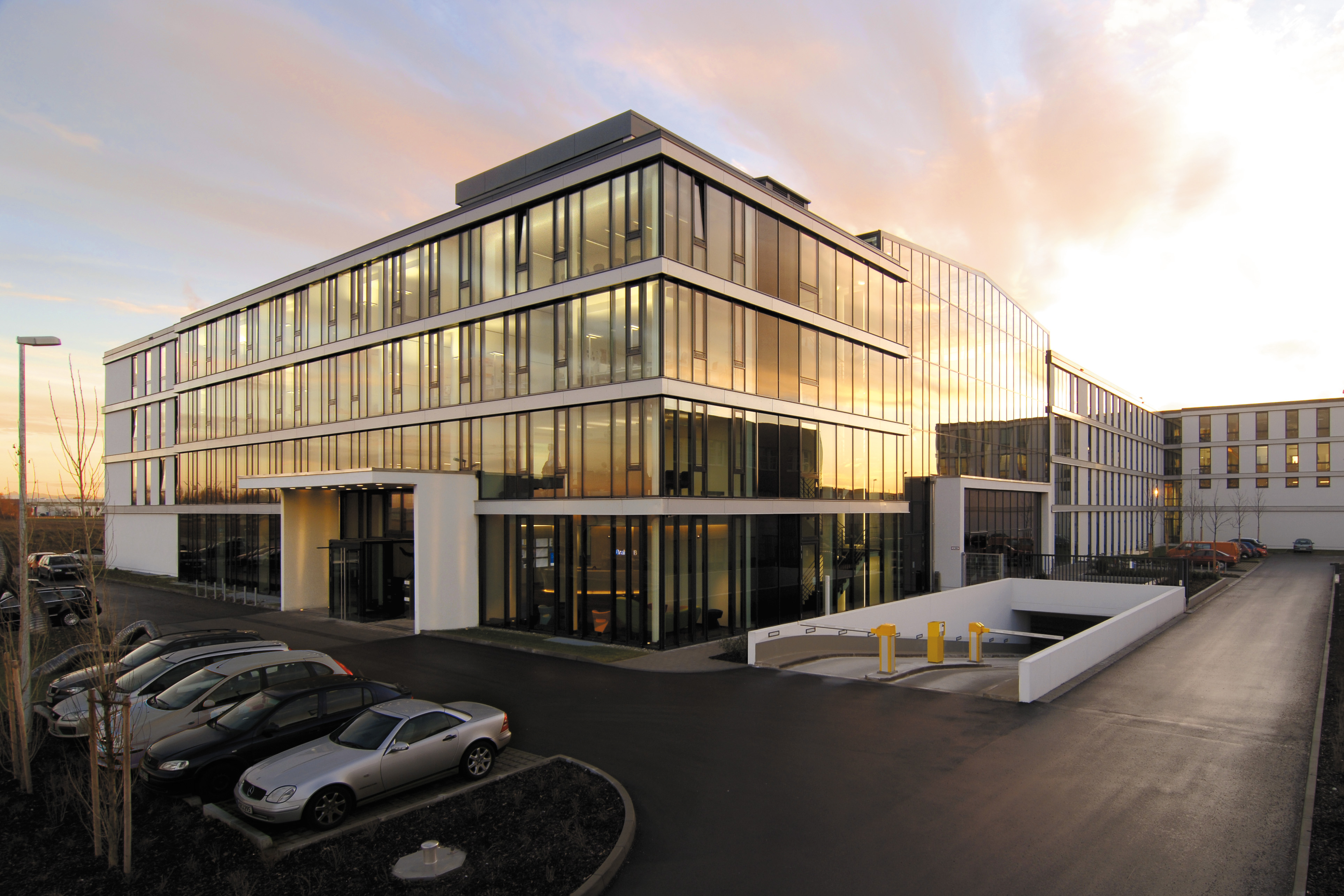 Brainlab headquarters in Feldkirchen, Germany